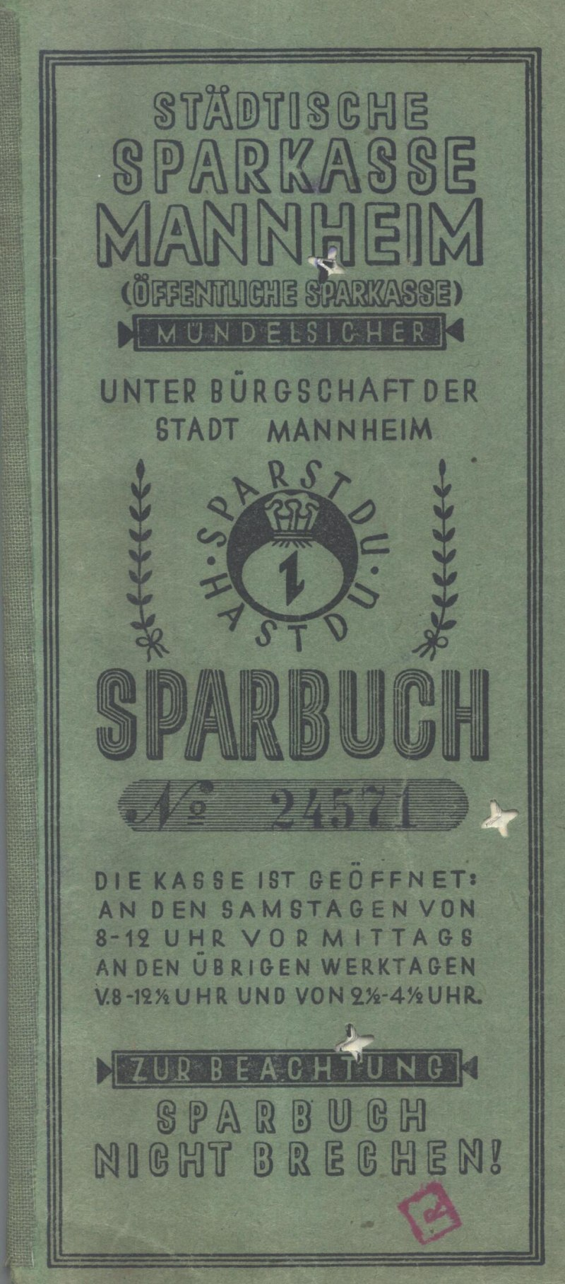 savings bank book 1942